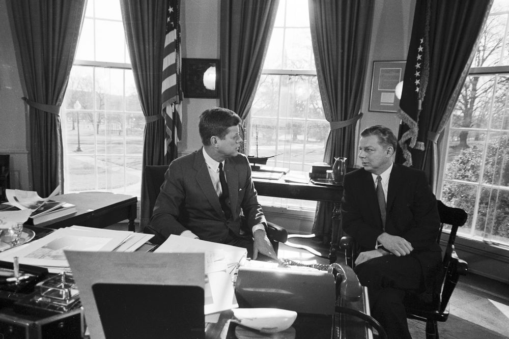 President John F. Kennedy meets with US Ambassador to the Republic of Lebanon, Armin H. Meyer. Oval Office, White House, Washington D.C.